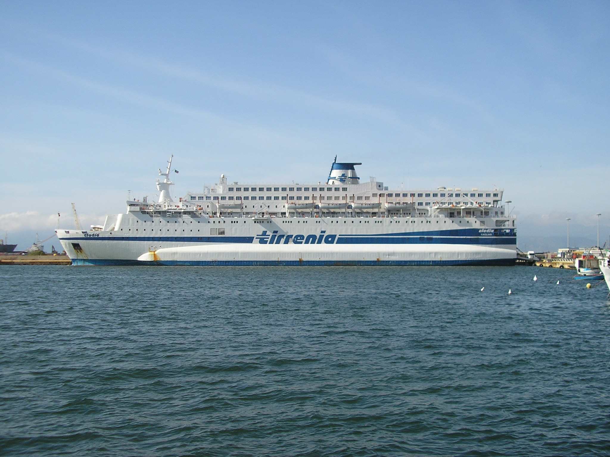 The Clodia ship of Tirrenia riding at anchor in the Cagliari harbour, in Sardinia, Italy